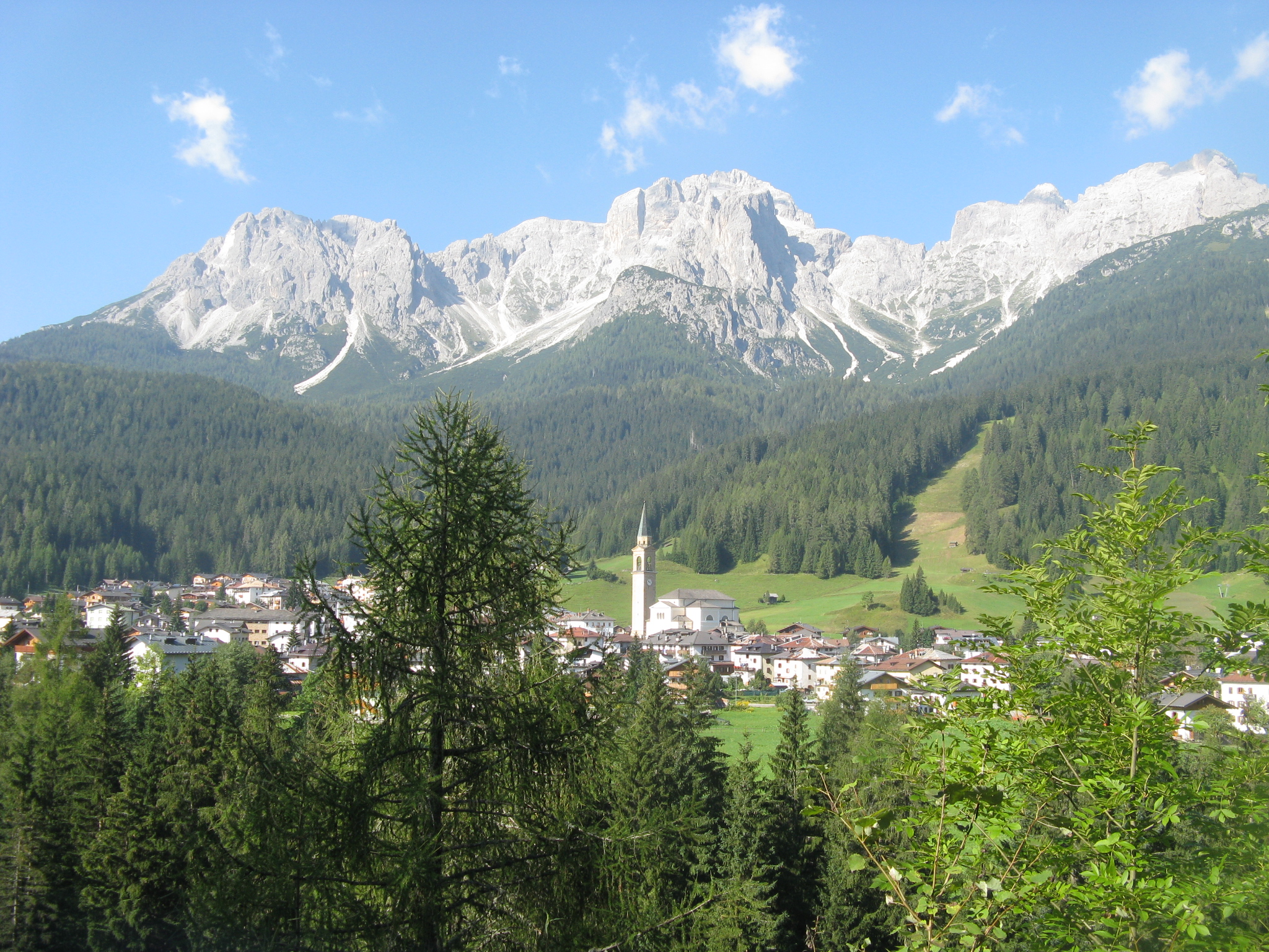 Comelico Superiore, frazione Padola